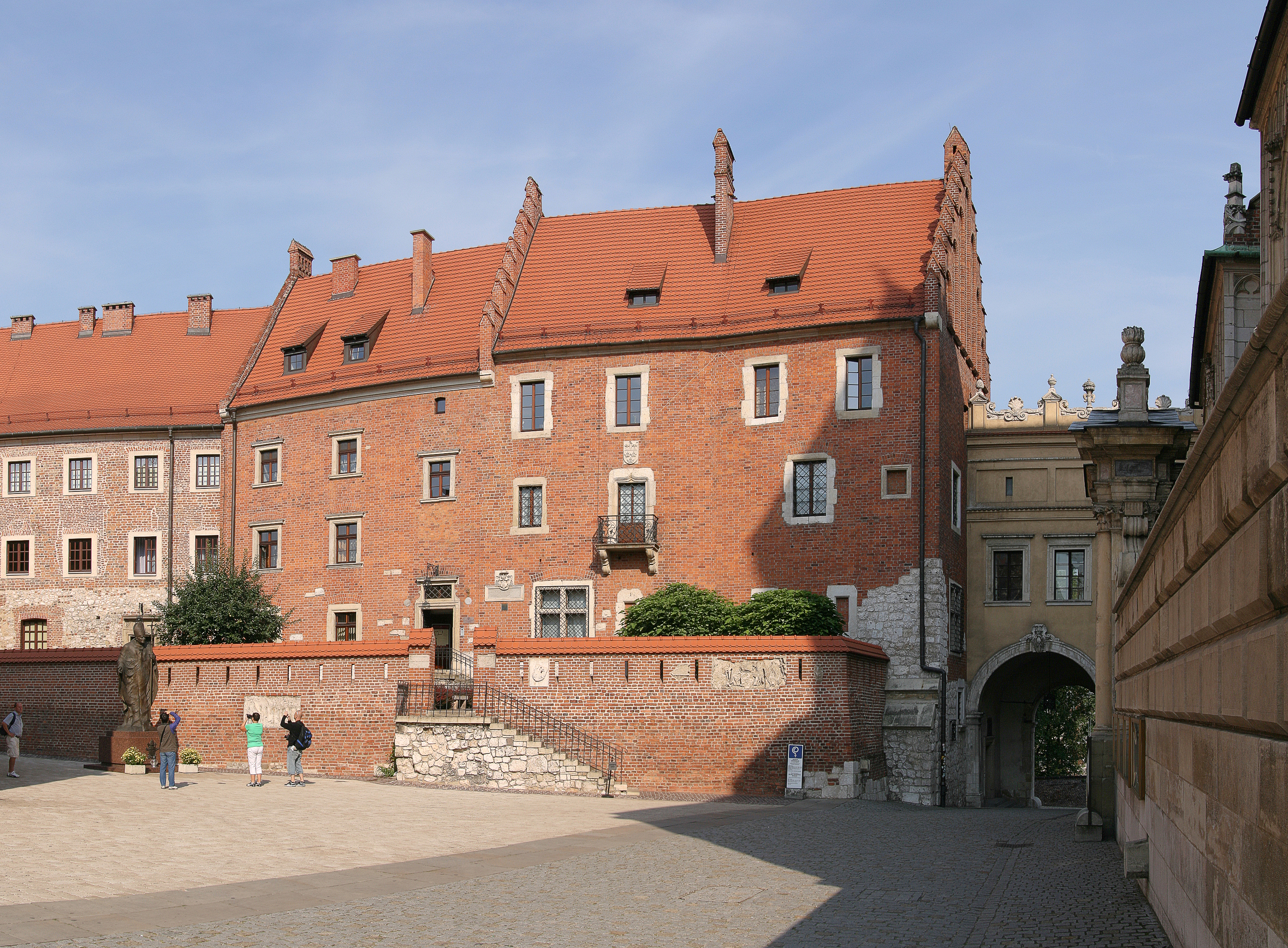 Museum of the Wawel Cathedral, Krakow